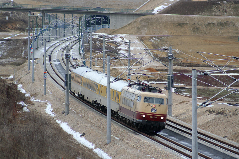 A DB class 103 pulls a sonic measurement train on the Nuremberg-Ingolstadt high-speed railway line.